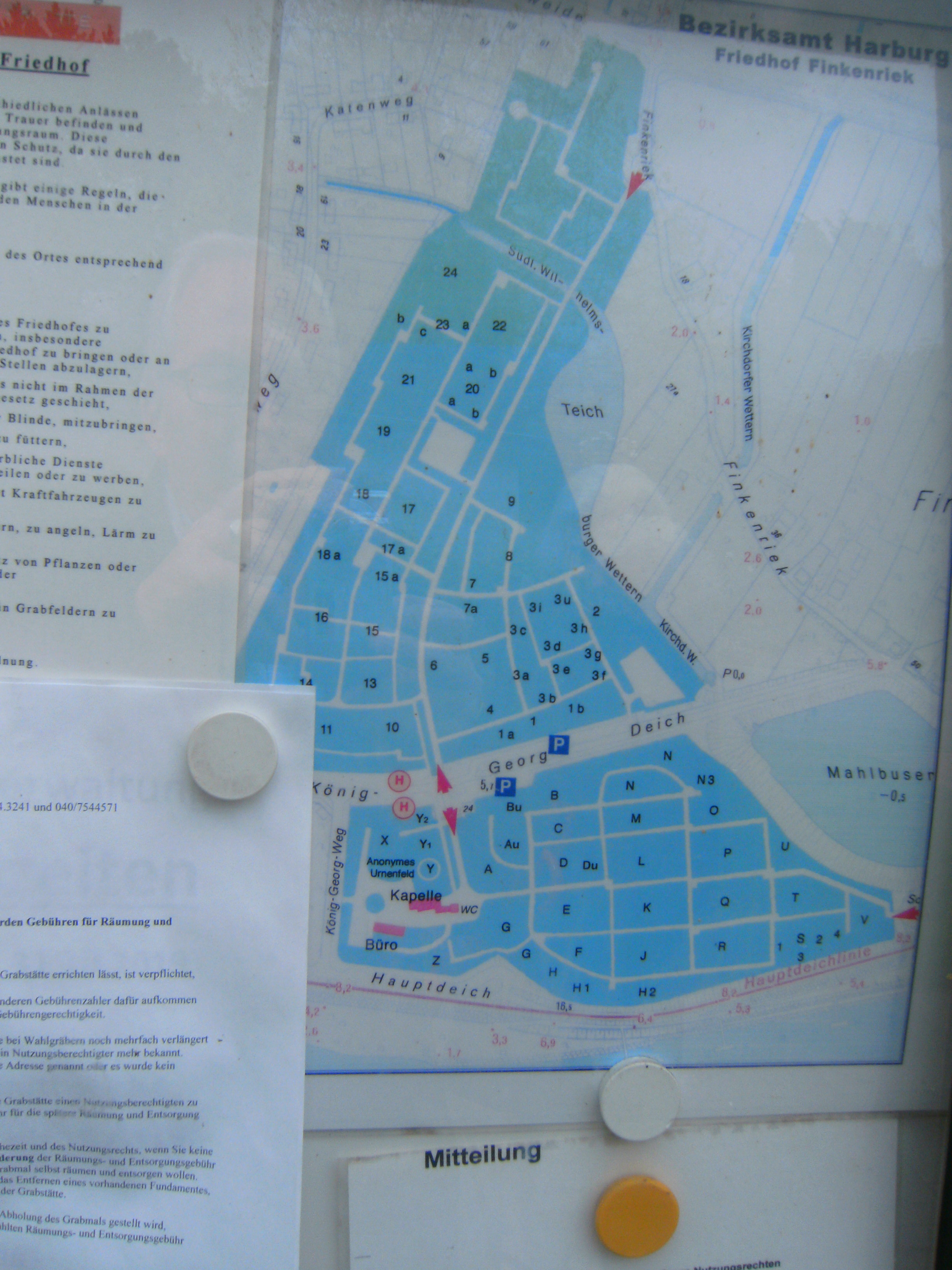 Hamburg-Wilhelmsburg, Germany, Friedhof Finkenriek (cemetery): Southern and northern part. Map.